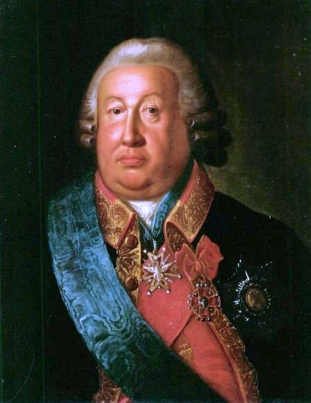 Mikhail Volkonskyi